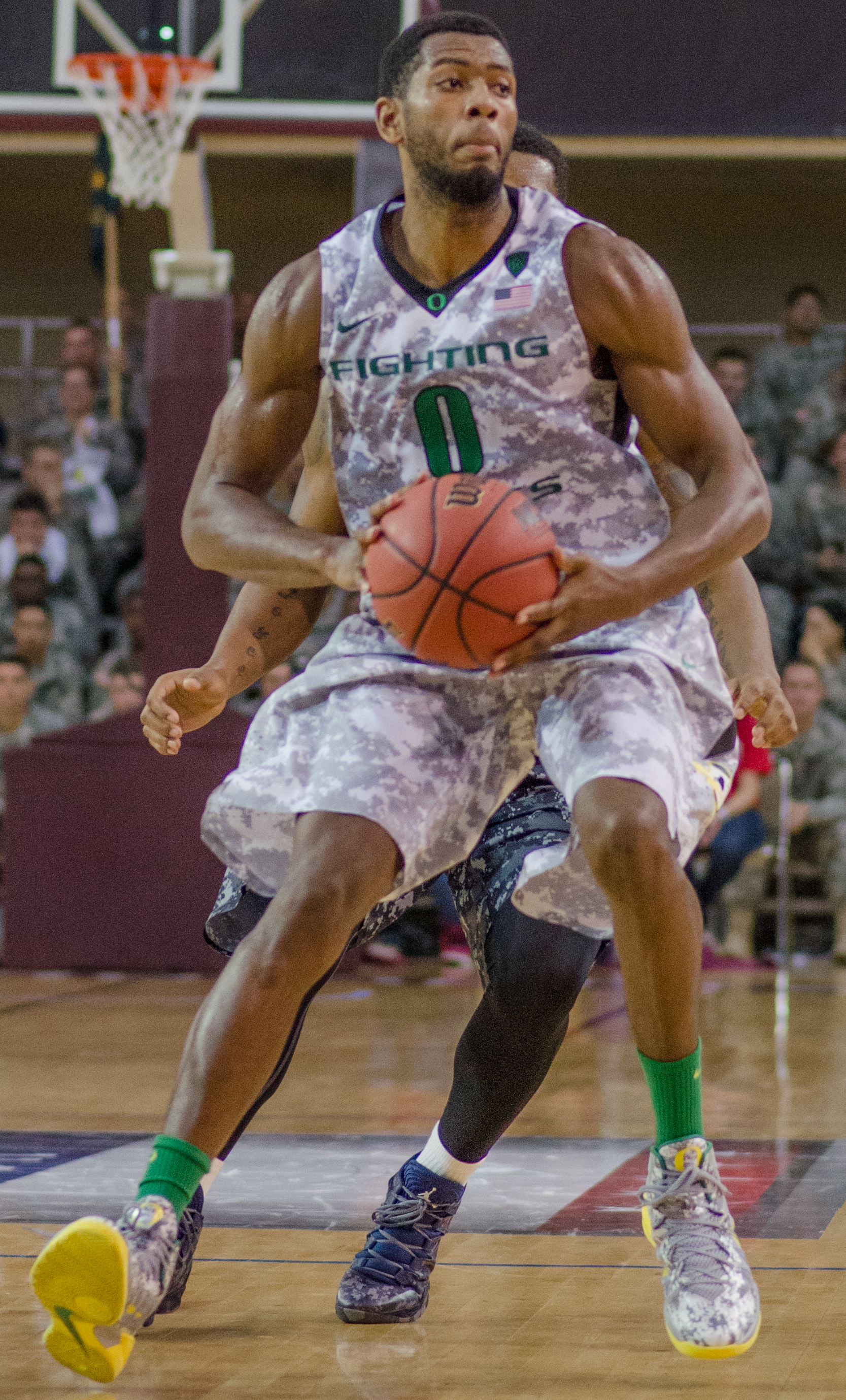 Mike Moser of Oregon playing in the Armed Forces Classic in Korea, November 2013. U.S. Army photos by Anthony Langley